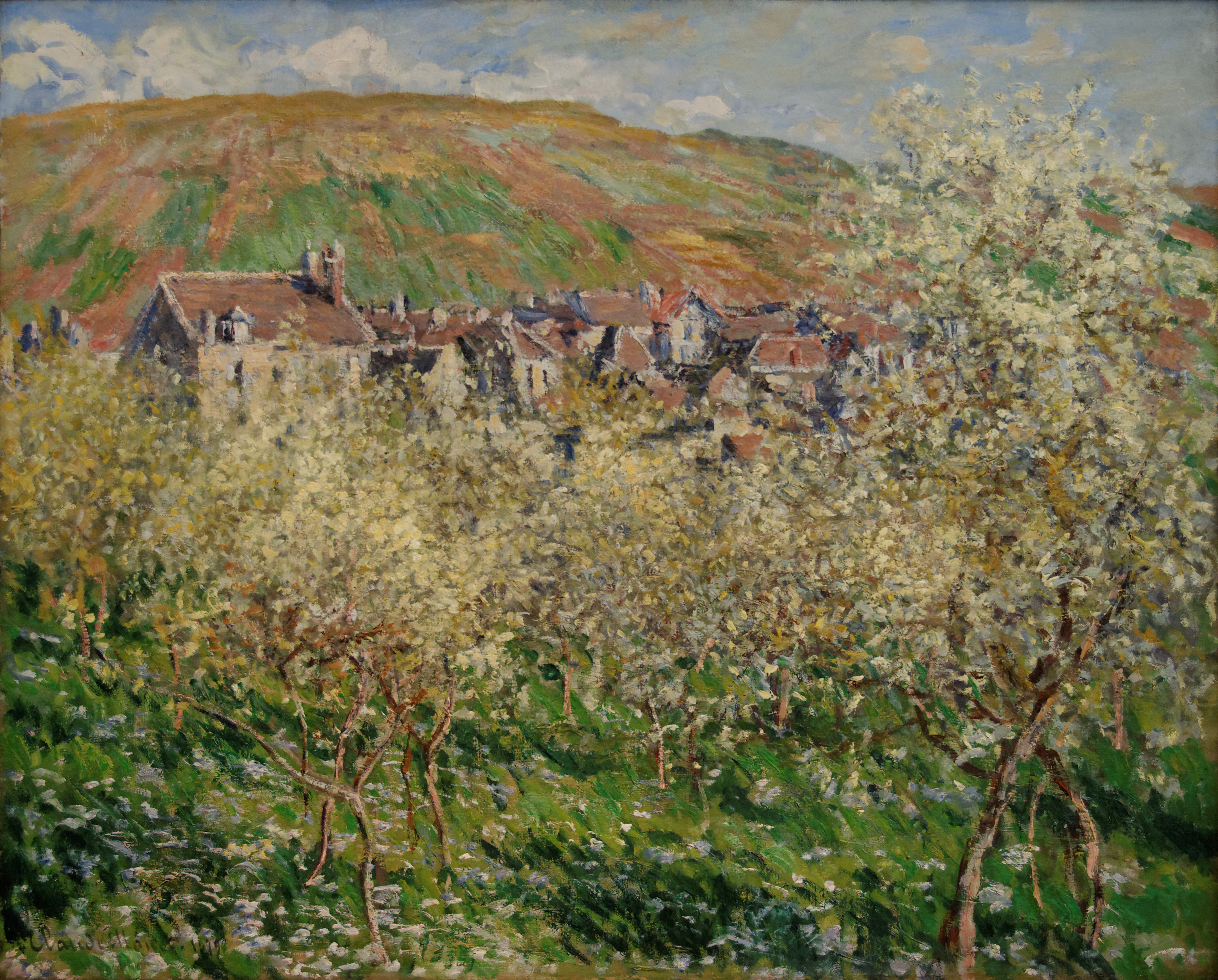 Plum trees in blossom, 1879. Claude Monet. Budapest museum of fine arts. N° inv 266.B Purchase from the Galerie Arnot in Vienne, 1912.